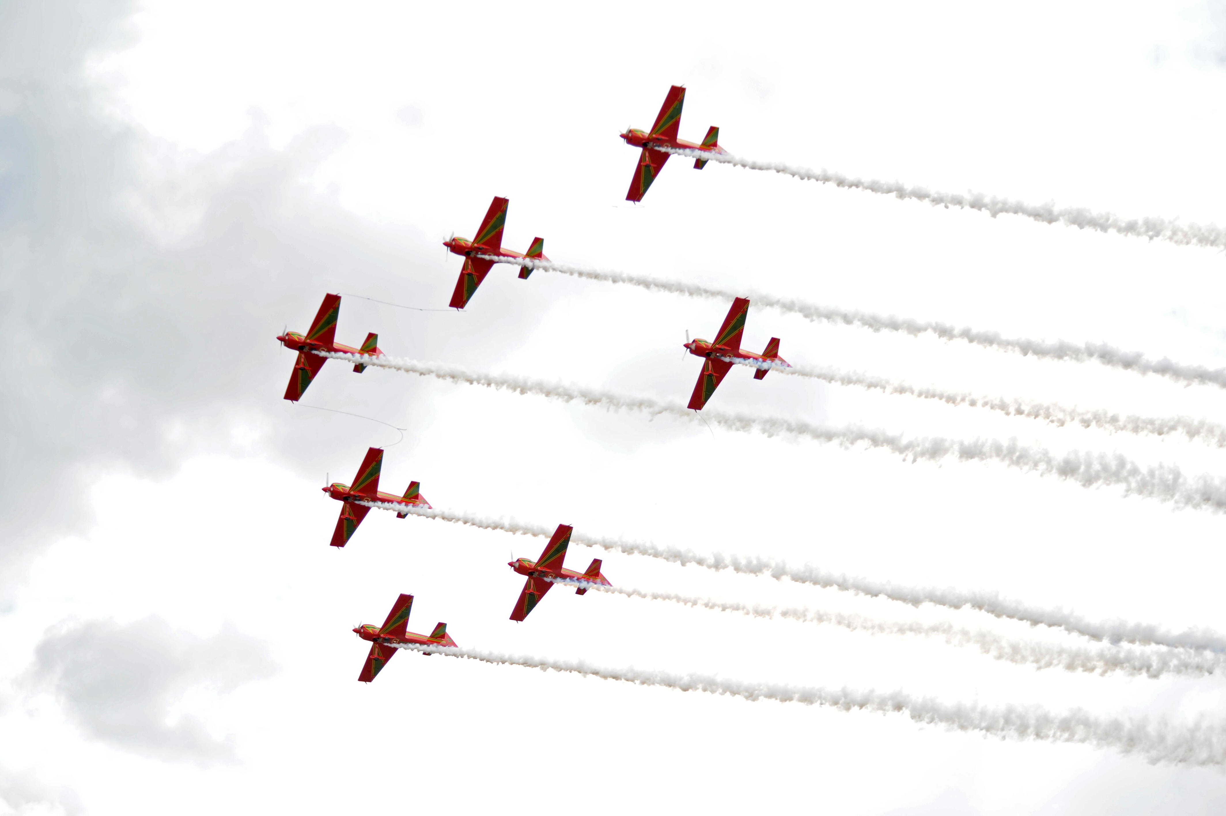 MARRAKECH, Morocco – The Royal Moroccan Air Force aerial demonstration team, Marche Verte, perform during the opening ceremonies at the Marrakech Aeroexpo April 4, 2012. U.S. Air Forces Africa is participating the third biennial Aeroexpo Marrekech to strengthen the partnerships with the nations involved and show commitment to security and stability in the region. (U.S. Air Force photo/Staff Sgt. Benjamin Wilson)